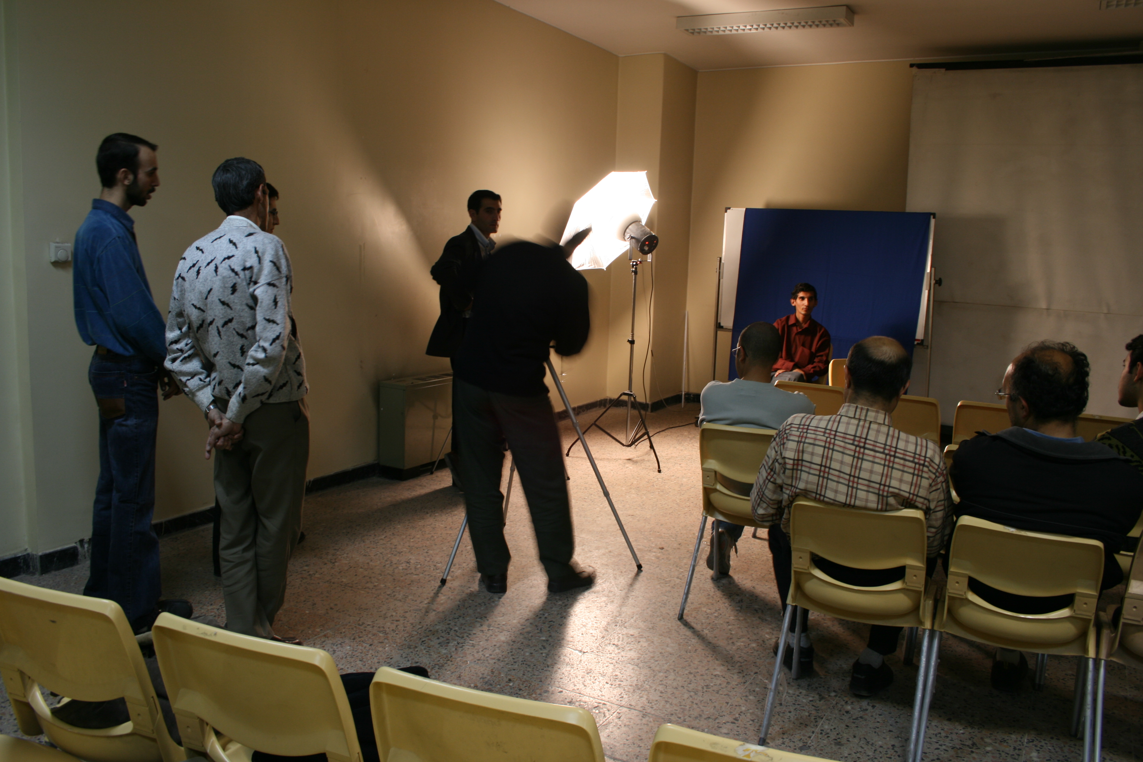 Portrait workshop in Tabriz Photographic Society.